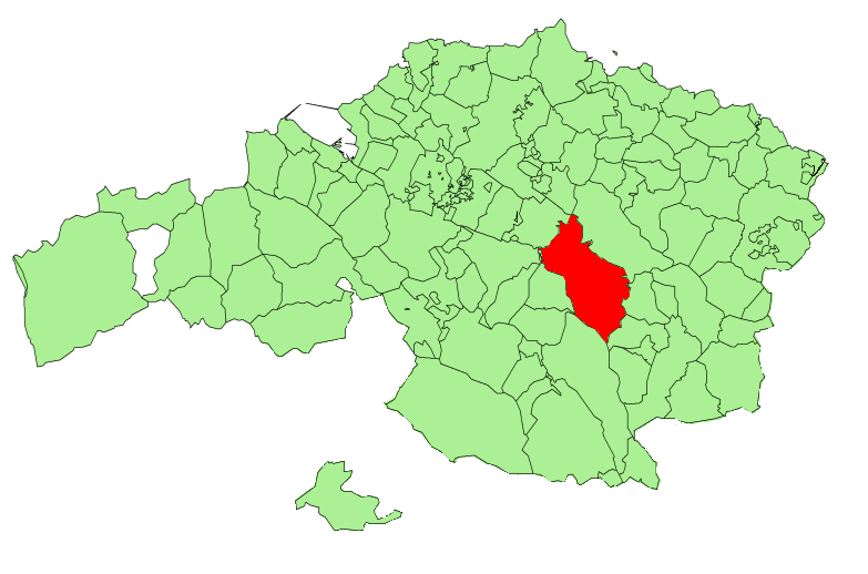 Amorebieta-Etxano municipality in the province of Biscay